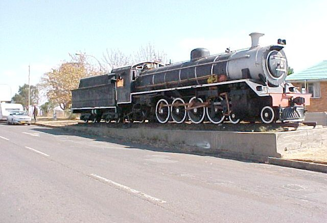 SAR Class 19 1369 (4-8-2) Builder's Number: Berliner 9282 Tender: Type MP1 Location: Breyten, Mpumalanga